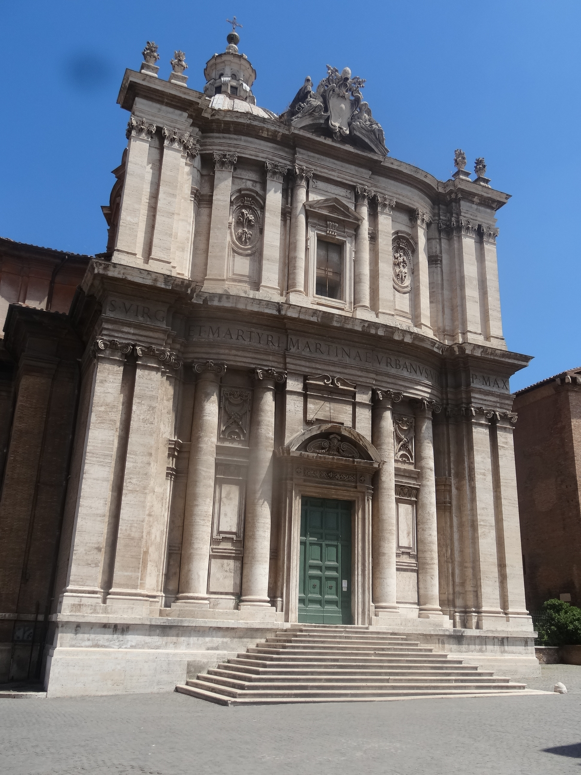 Santi Luca e Martina (Rome)